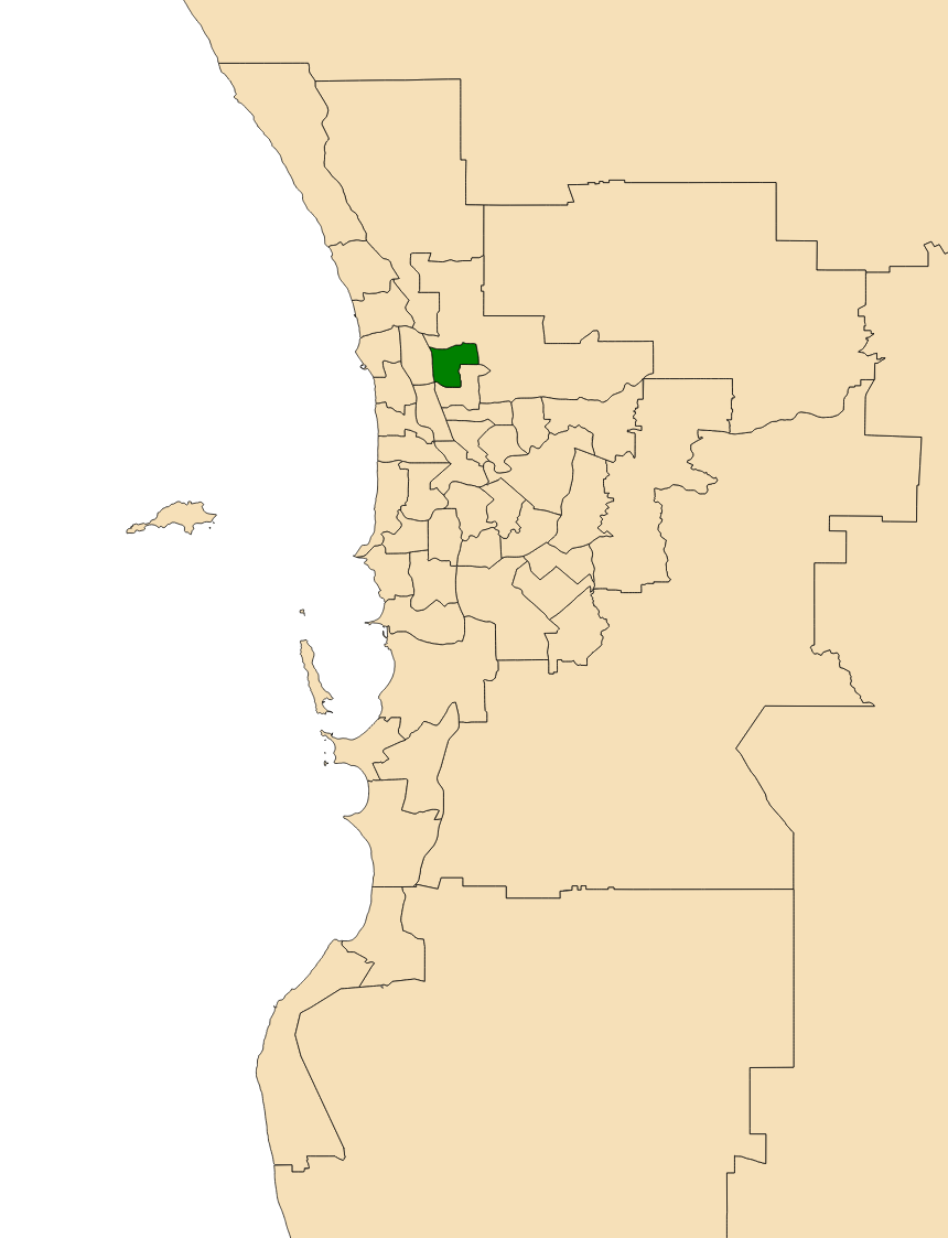 Location of the electoral district of Girrawheen in the Perth metropolitan area, Western Australia as of the 2017 WA state election.